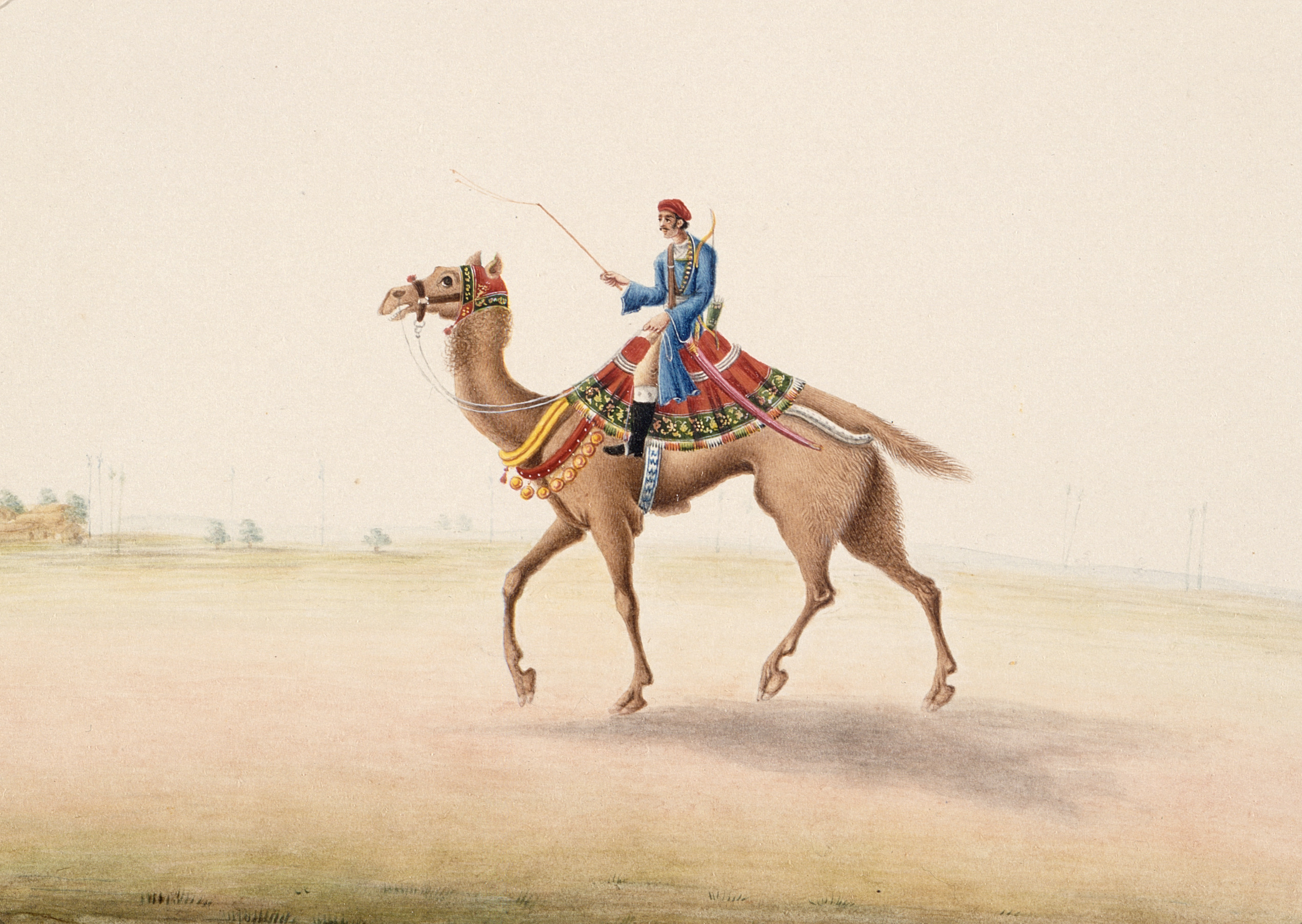 India, Bihar, Patna, South Asia Camel Rider